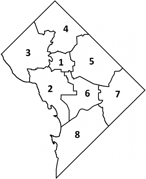 DC Council wards map 2012–2022